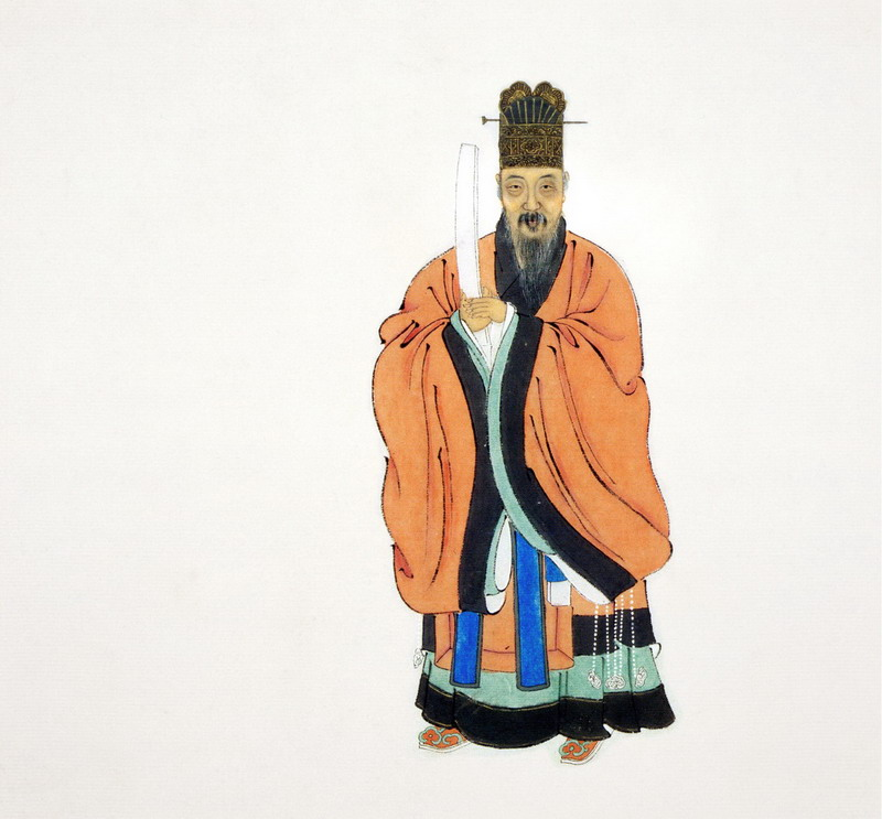 Xu Jie, politician of the Ming Dynasty.